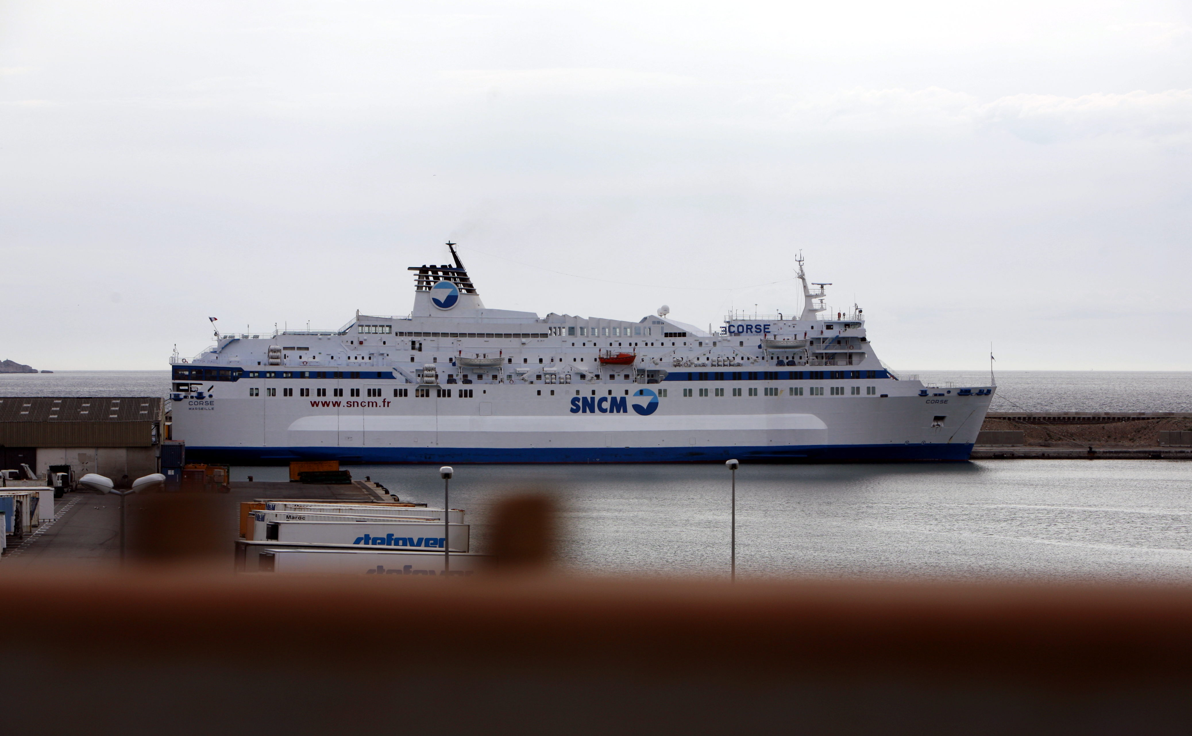 Ferry Corse in Marseille harbour IMO Number: 8003620 MMSI Number: 227188000 Callsign: FNZV Length: 145 m Beam: 26 m